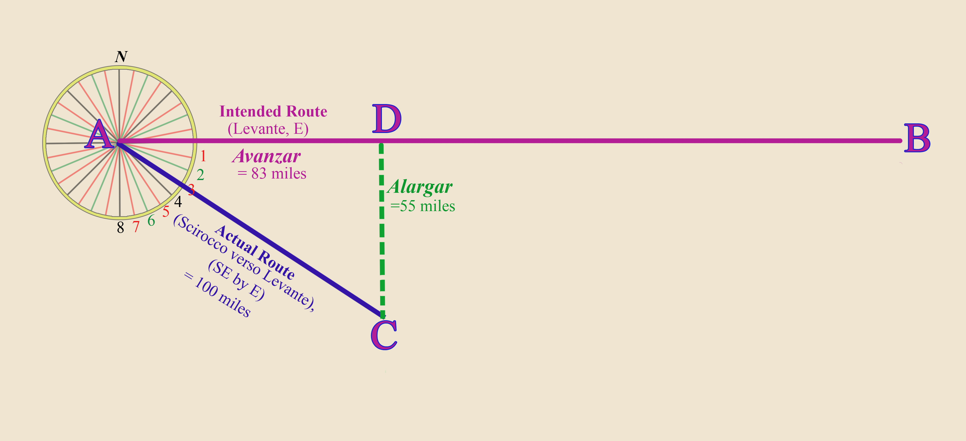 Depiction of the Rule of Marteloio, from the 1436 atlas of Venetian captain Andrea Bianco - Step 1, calculating the alargar and avanzar. The ship's intended course is from A to B (bearing East), but winds force it to sail actual course from A to C (bearing Southeast-by-east, for 100 miles). The alargar (current distance from intended course) is obtained from the first column of the Toleta de marteloio (Bianco's table), while the avanzar (gain on intended course) is obtained from the second column.